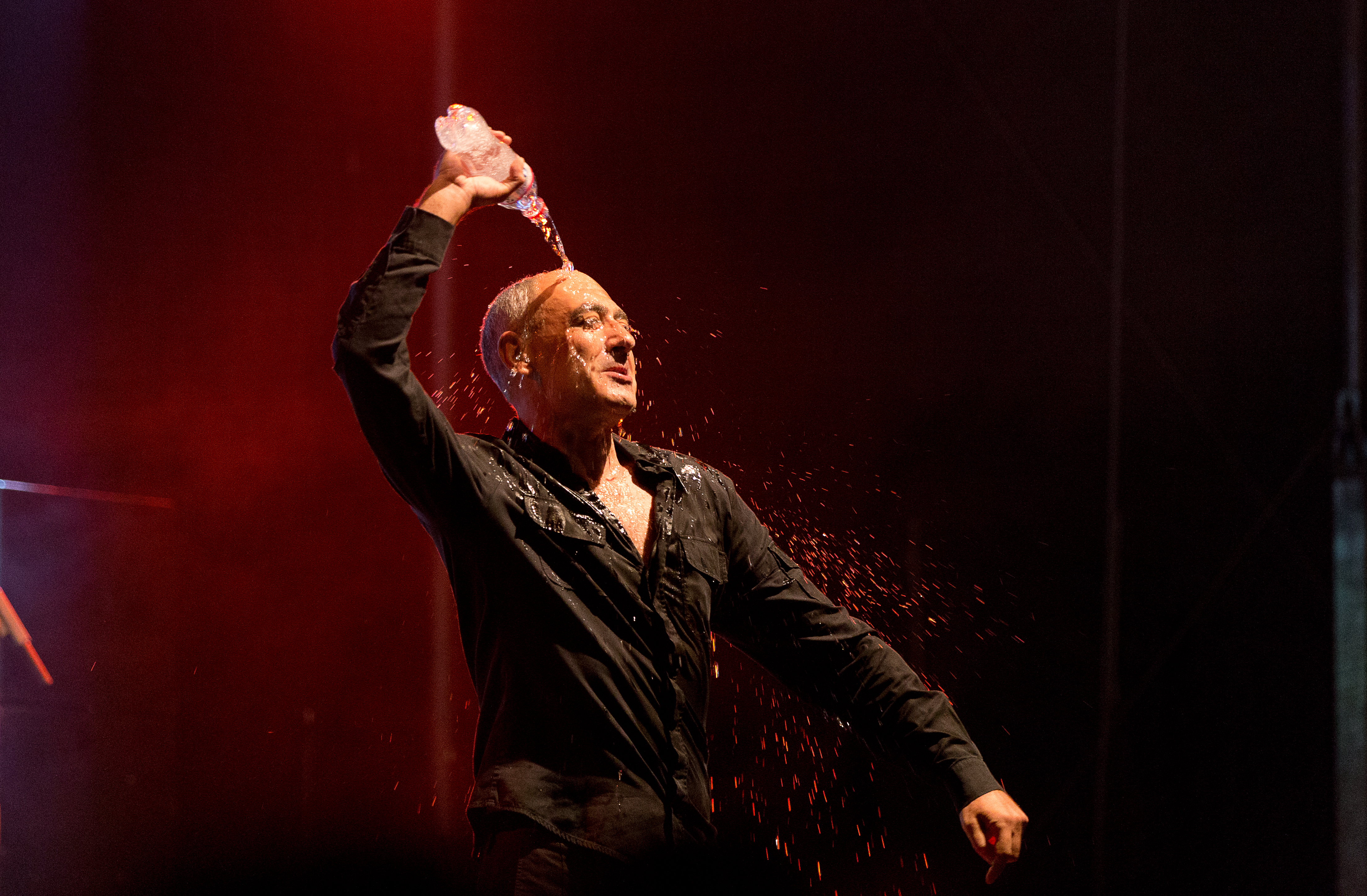 The German EBM band DAF at the Nocturnal Culture Night 11 2016 in Deutzen/Germany.